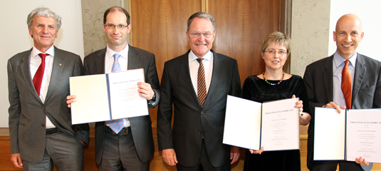 Prof. Schwarz (second on the left)